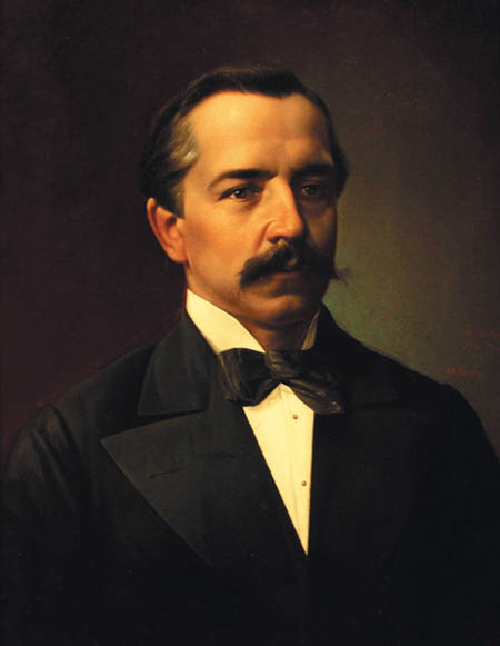 Fedor Plushkin, Russian collector from Pskov. Painting by I. F. Zhdanko